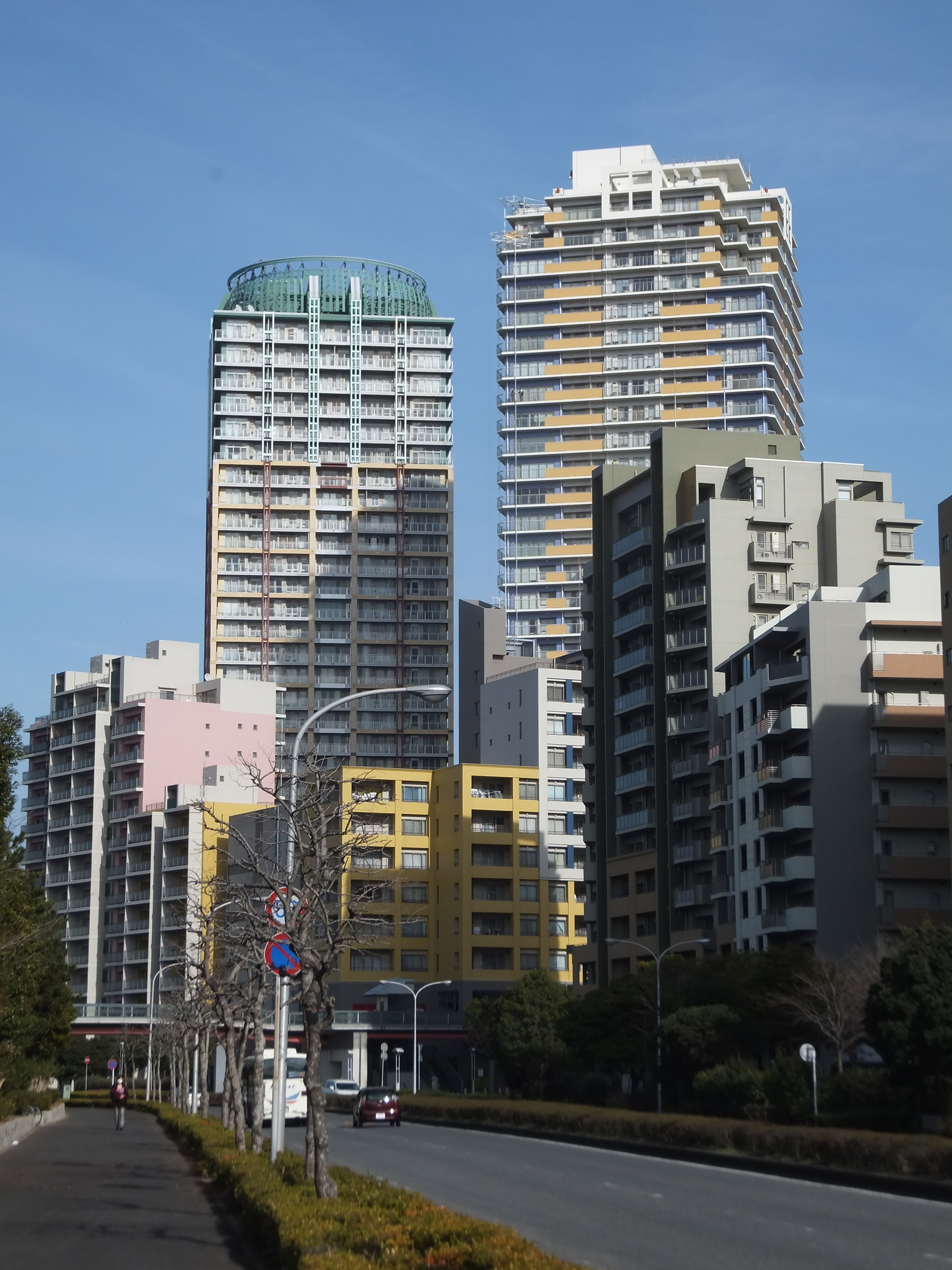 Makuhari BayTown Central Park Towers, right side tower is 'Sea Tower'; left side tower is 'Park Tower'.